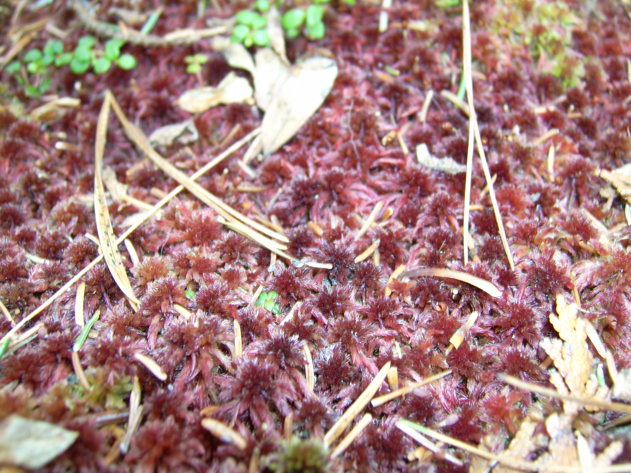 Small red peat moss (Sphagnum capillifolium), Orphan Lake trail, Lake Superior Provincial Park, Ontario 47°29′11.4″N 84°49′21.6″W / 47.4865°N 84.822667°W